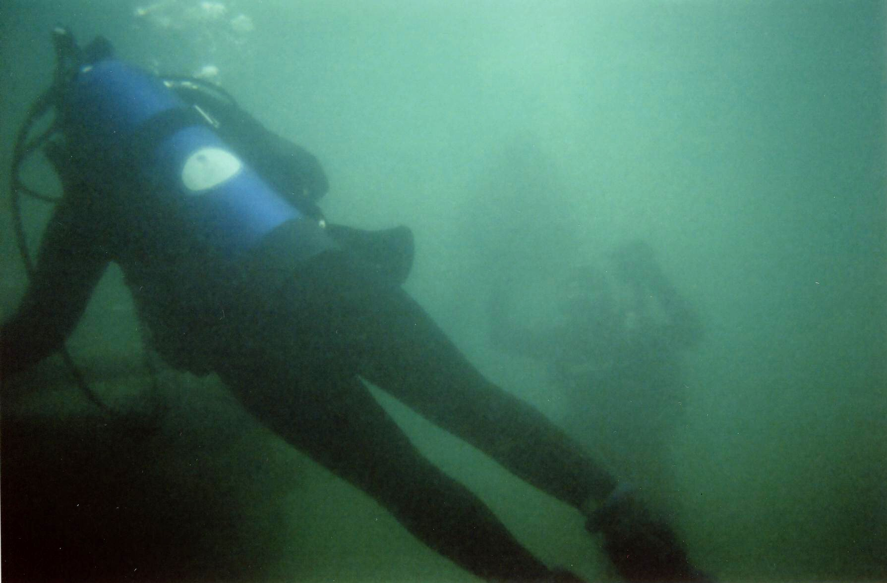 Scuba divers swimming toward an underwater platform at Wazee Lake, Wisconsin.